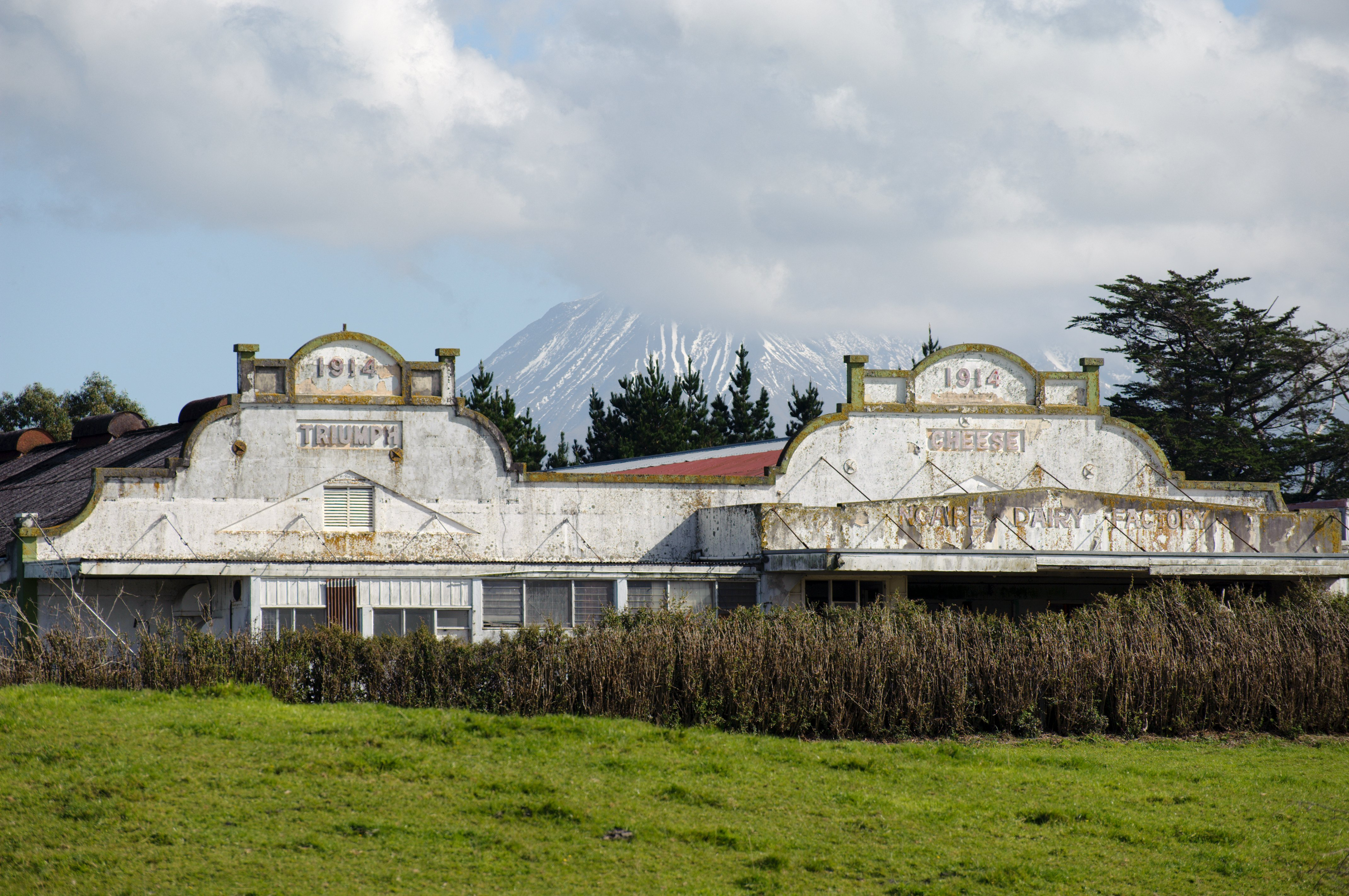 In Ngaere, rather than Ngare as it is spelled on the building itself. The building is registered by the New Zealand Historic Places Trust as a Category II structure, with registration number 930.